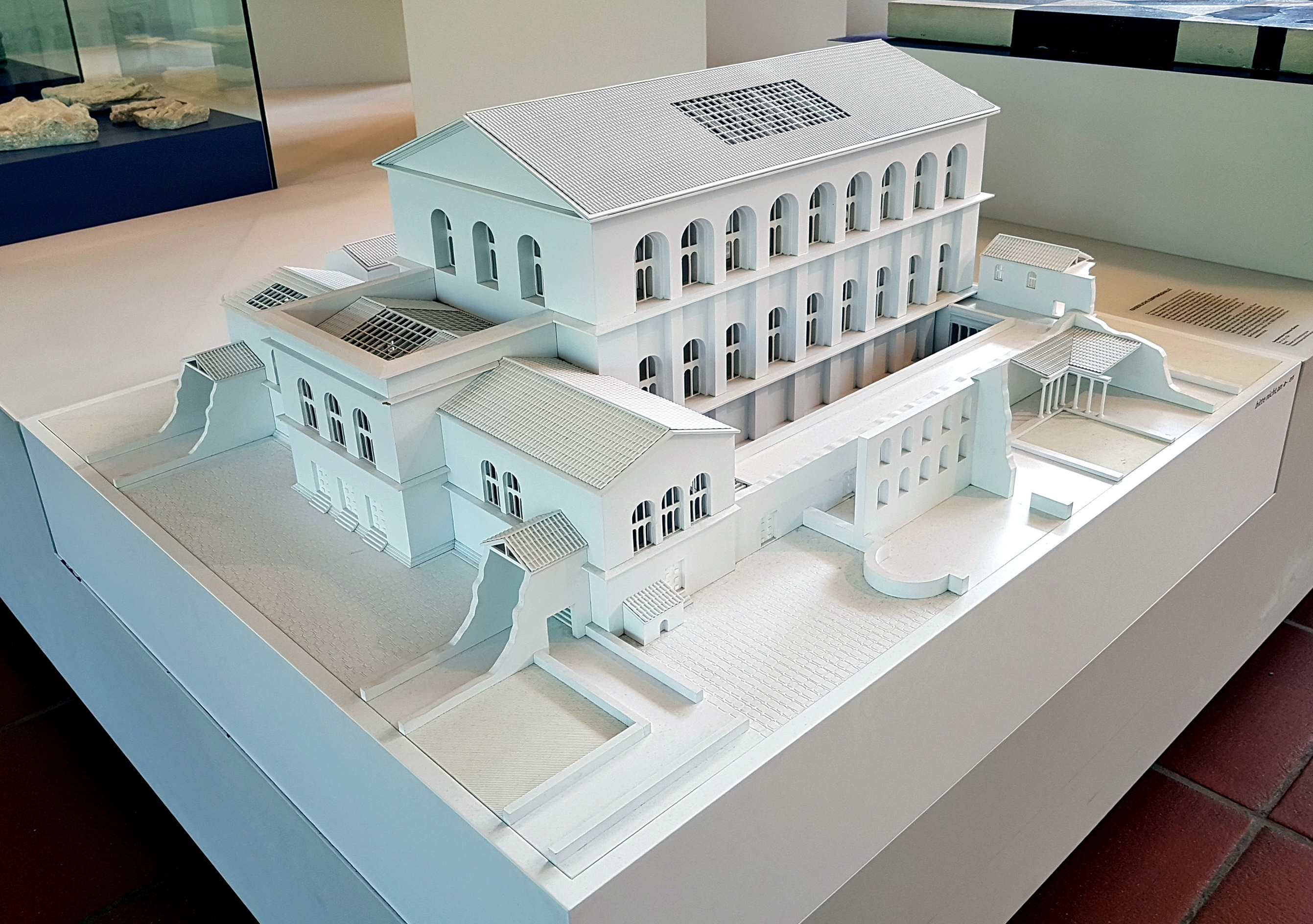 Scale model of the Basilica of Constantine as it appeared in the late-Roman city of Trier (Augusta Treverorum). Collection of Rheinisches Landesmuseum Trier, Germany.